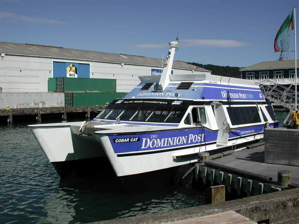 Wellington Harbour Ferry Cobar Cat at Queen's Wharf, Wellington. From early September 2005 in commuter services between Queens Wharf and Days Bay, Wellington. The hundred-passenger 16.5-metre ferryferry was built at Whangarei by Northland Contract Boat Builders Ltd. And launched on 17th August 2005.